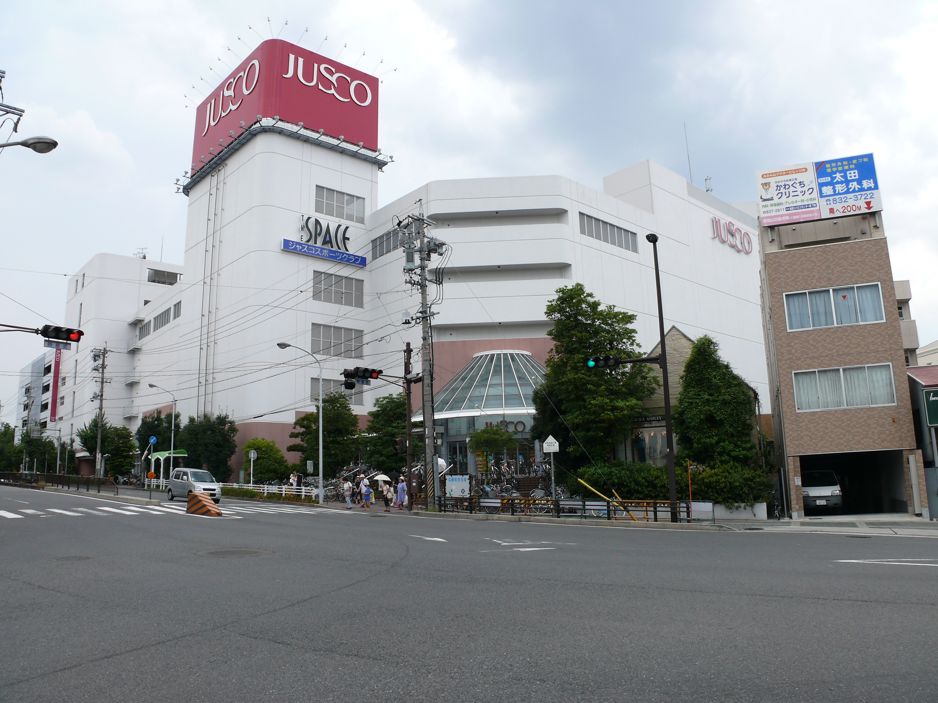 JUSCO City Yagoto.